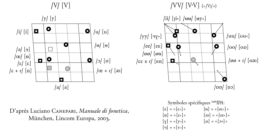 Swedish vocoids